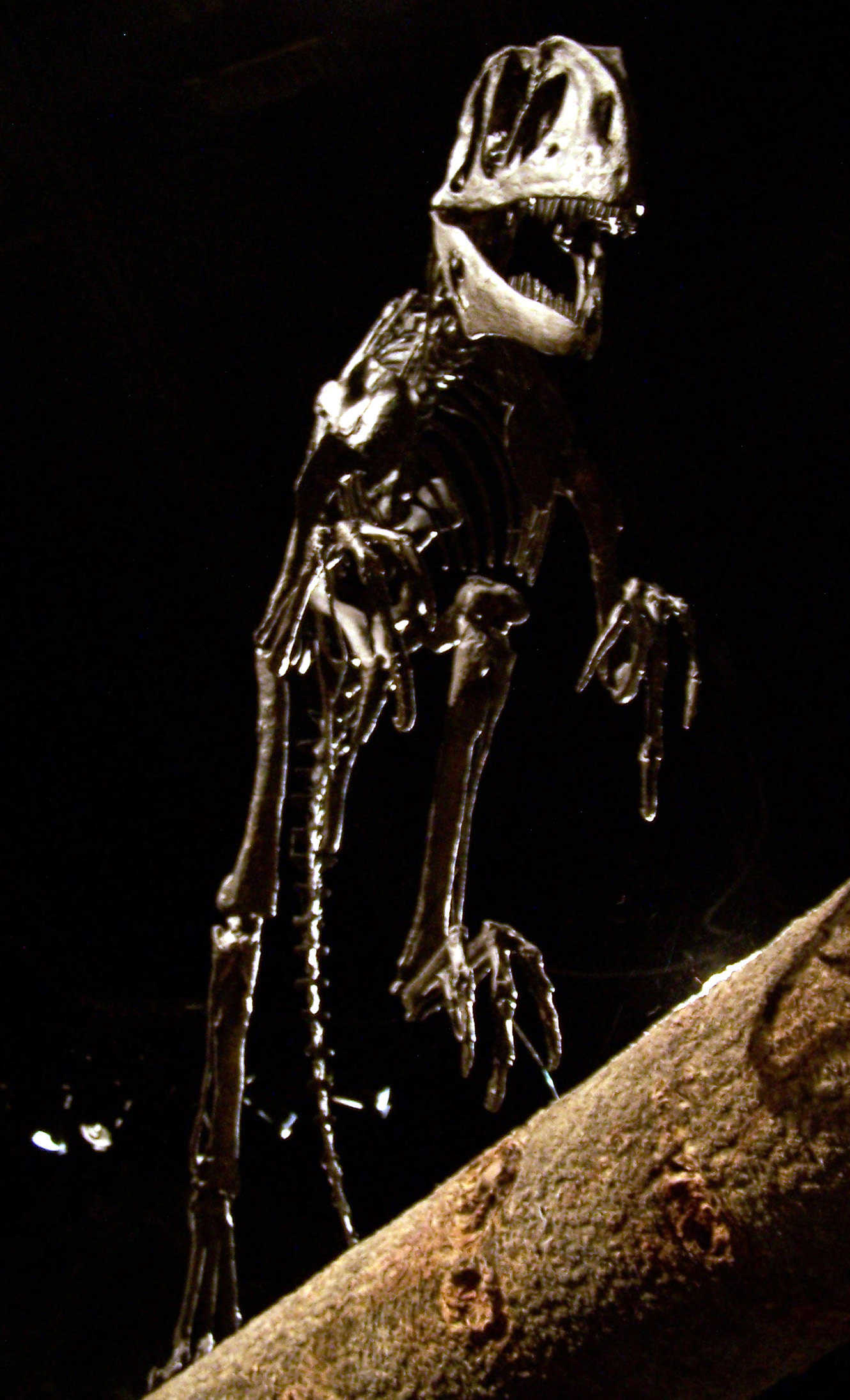 Cast of a Tanycolagreus topwilsoni skeleton, North American Museum of Ancient Life.